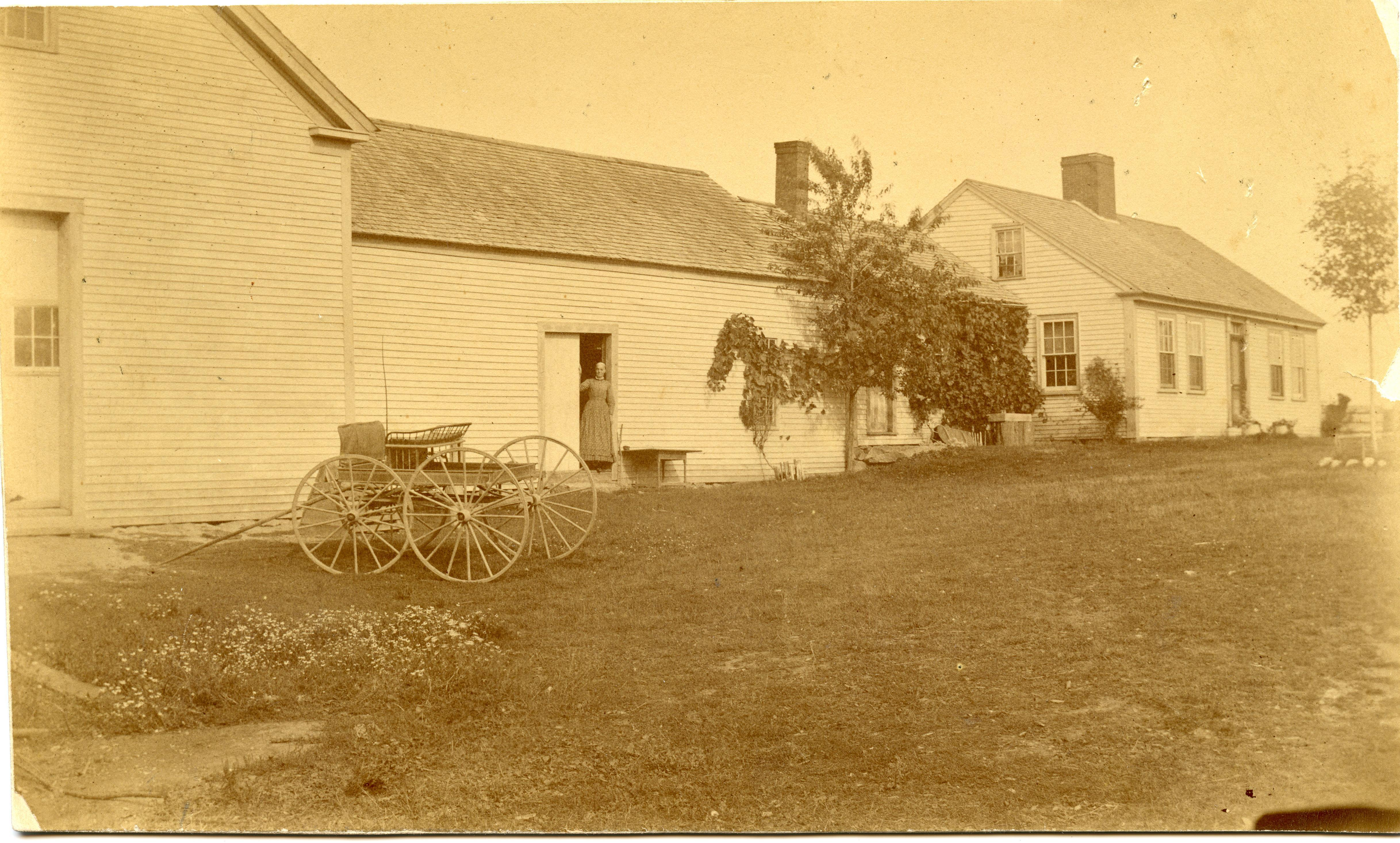 Photograph of the Leavitt family farm, Turner, Maine, circa 1900. Courtesy of the Turner Museum and Historical Society. Retouched by MarmadukePercy